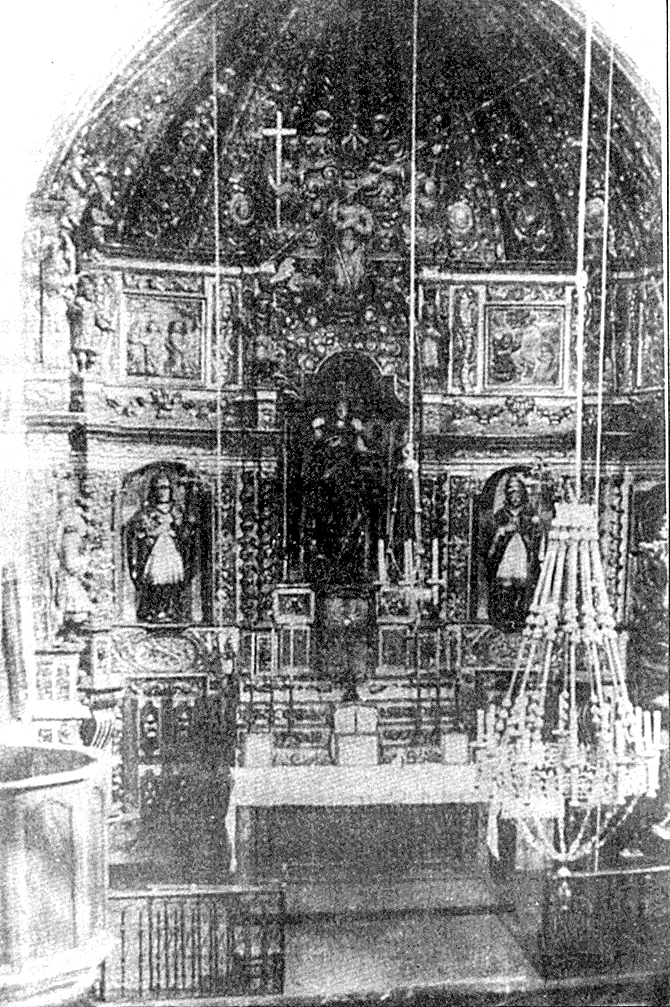 Baroque altar of the Church of Santa Coloma de Ger, Cerdanya Catalonia. Destroyed in 1936